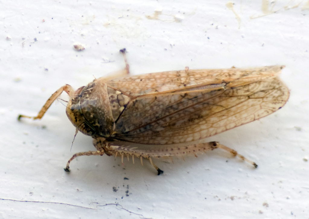 Leafhopper Texananus sp. from Tuba City, AZ. Caught in a strip of fly paper. See also: [1], [2].